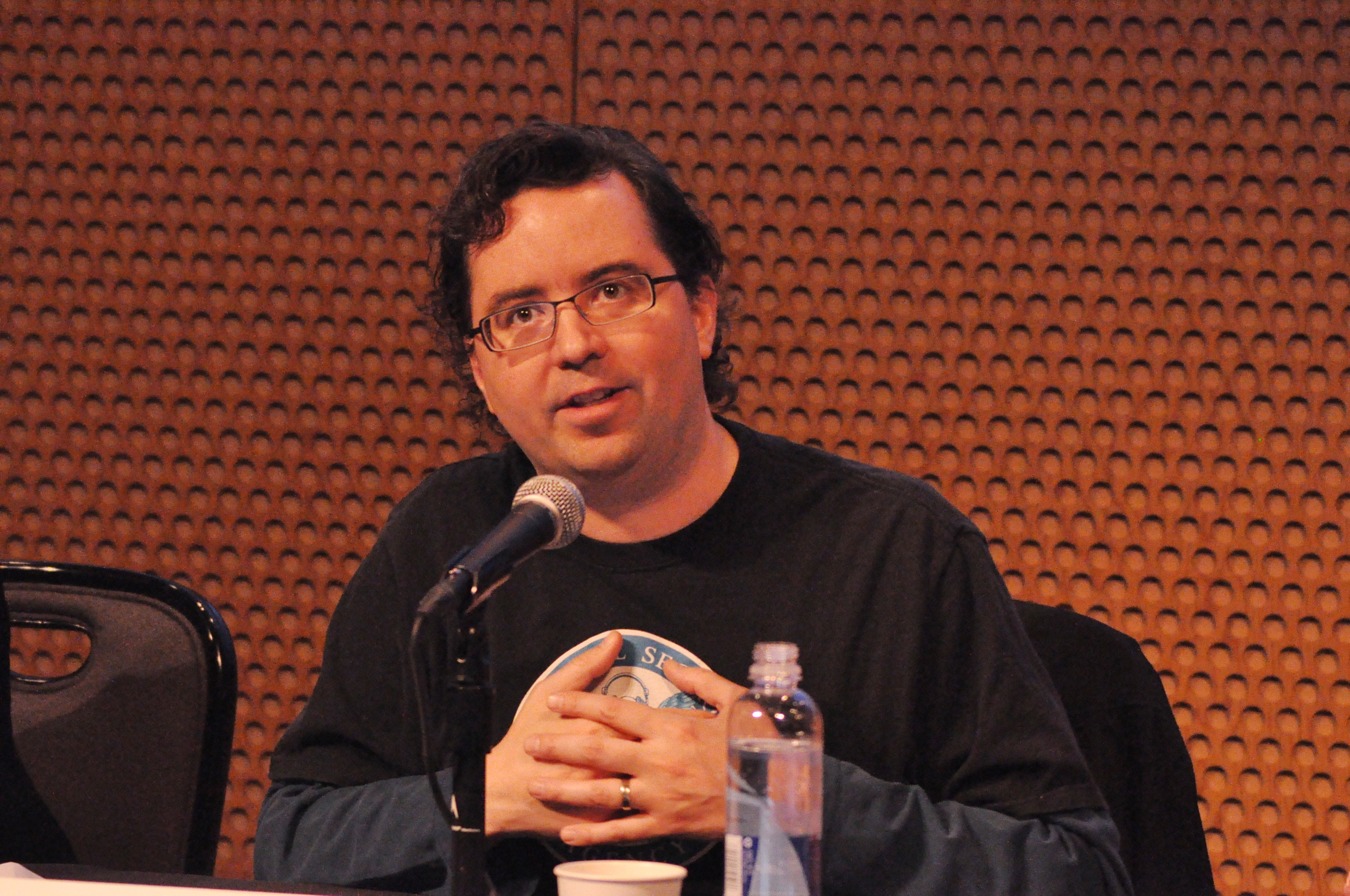 Filmmaker & academic Kembrew McLeod moderating the "Interrogating the Digital" panel at the 2010 Pop Conference, EMPSFM, Seattle, Washington.